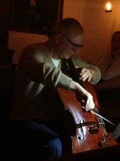 Theodore Mook performing in the Chapel at the Star Island Conference Center, August 2013